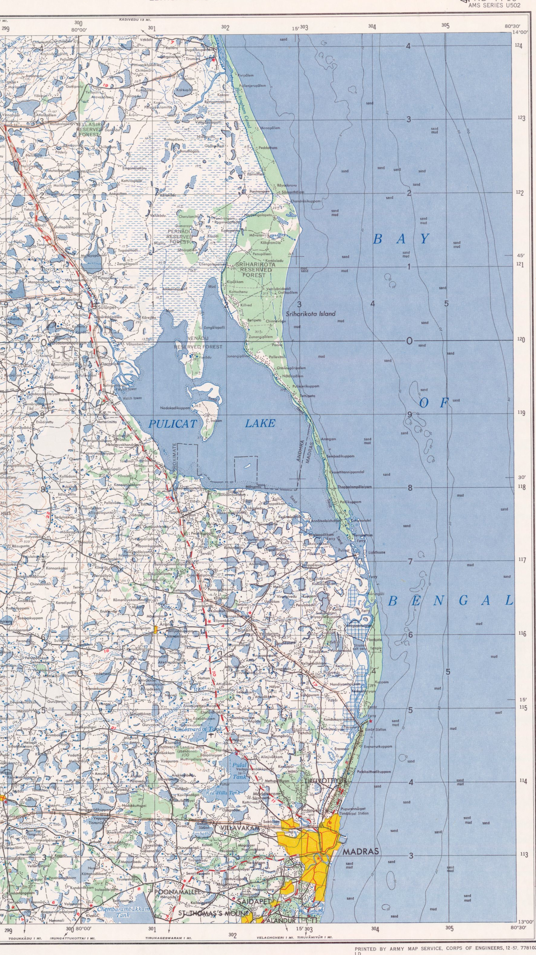 Coast of Tamil Nadu between Madras and Pulicat Lake-1957-Scale 1:250,000